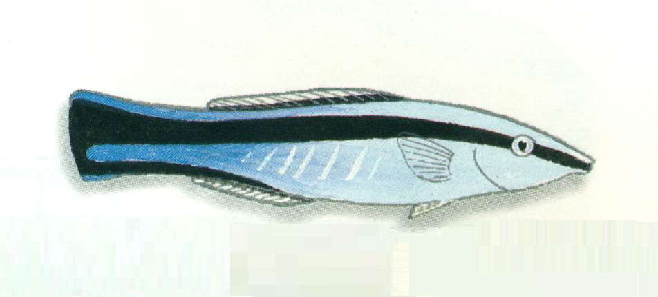 Labroides_dimidiatus